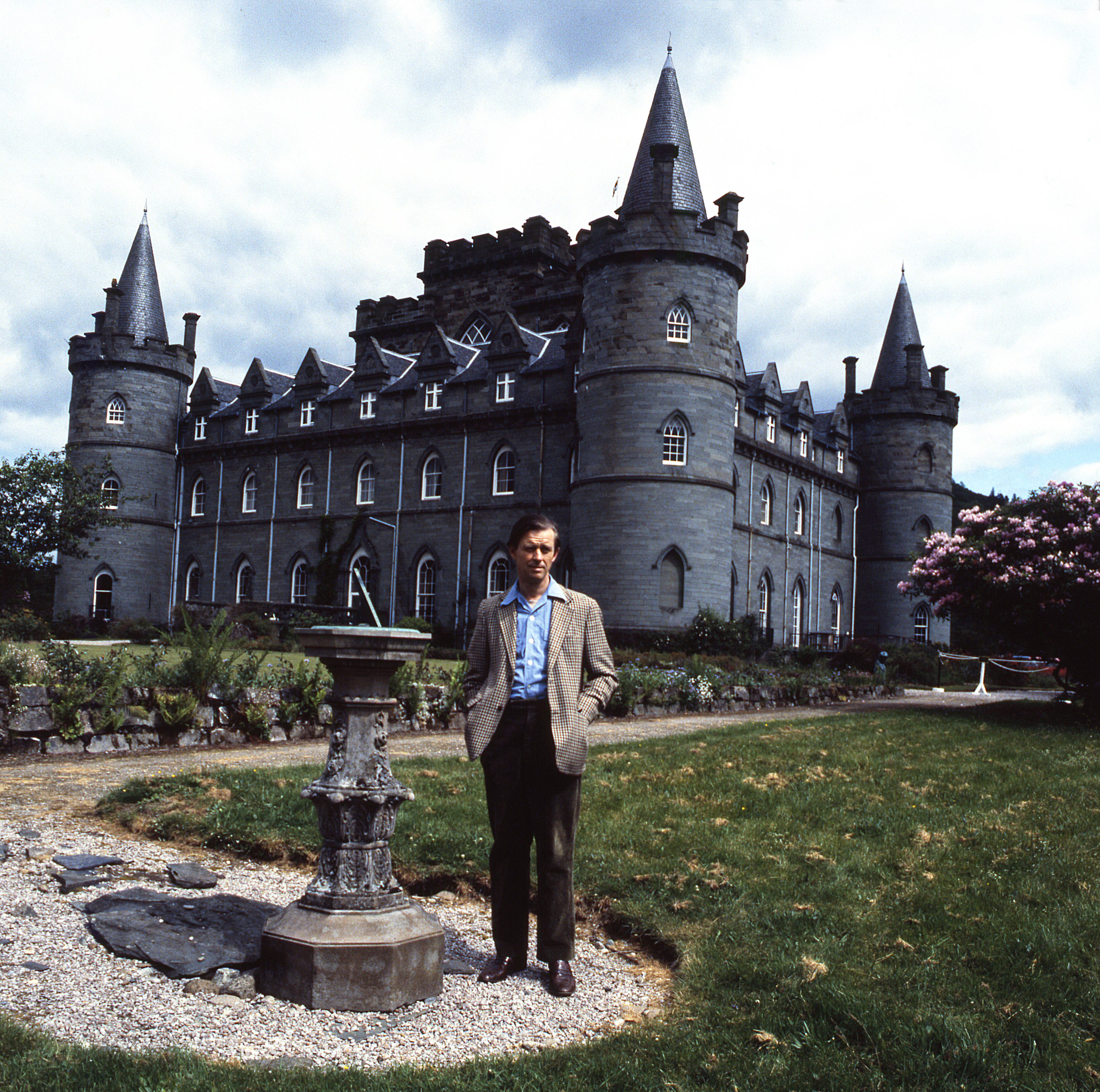 Ian Campbell, the 12th Duke of Argyll, outside Inveraray Castle, Scotland